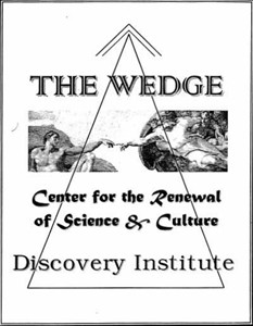 over of the Wedge Document of the Discovery Institute.